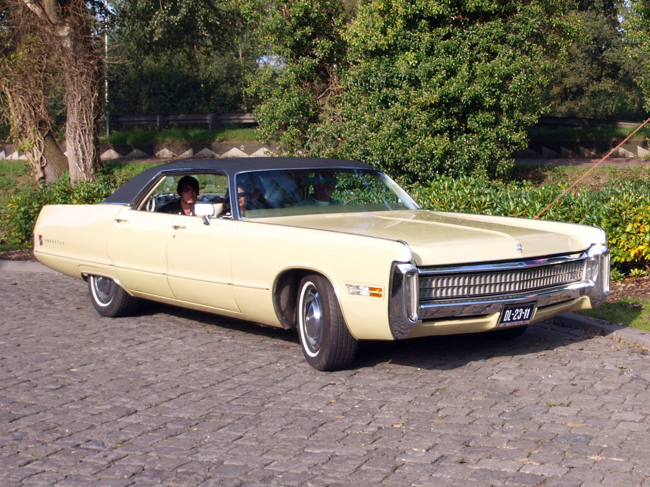 Photographed at the premmesis of the Louwman museum, The Hague, The Netherlands. OLYMPUS DIGITAL CAMERA